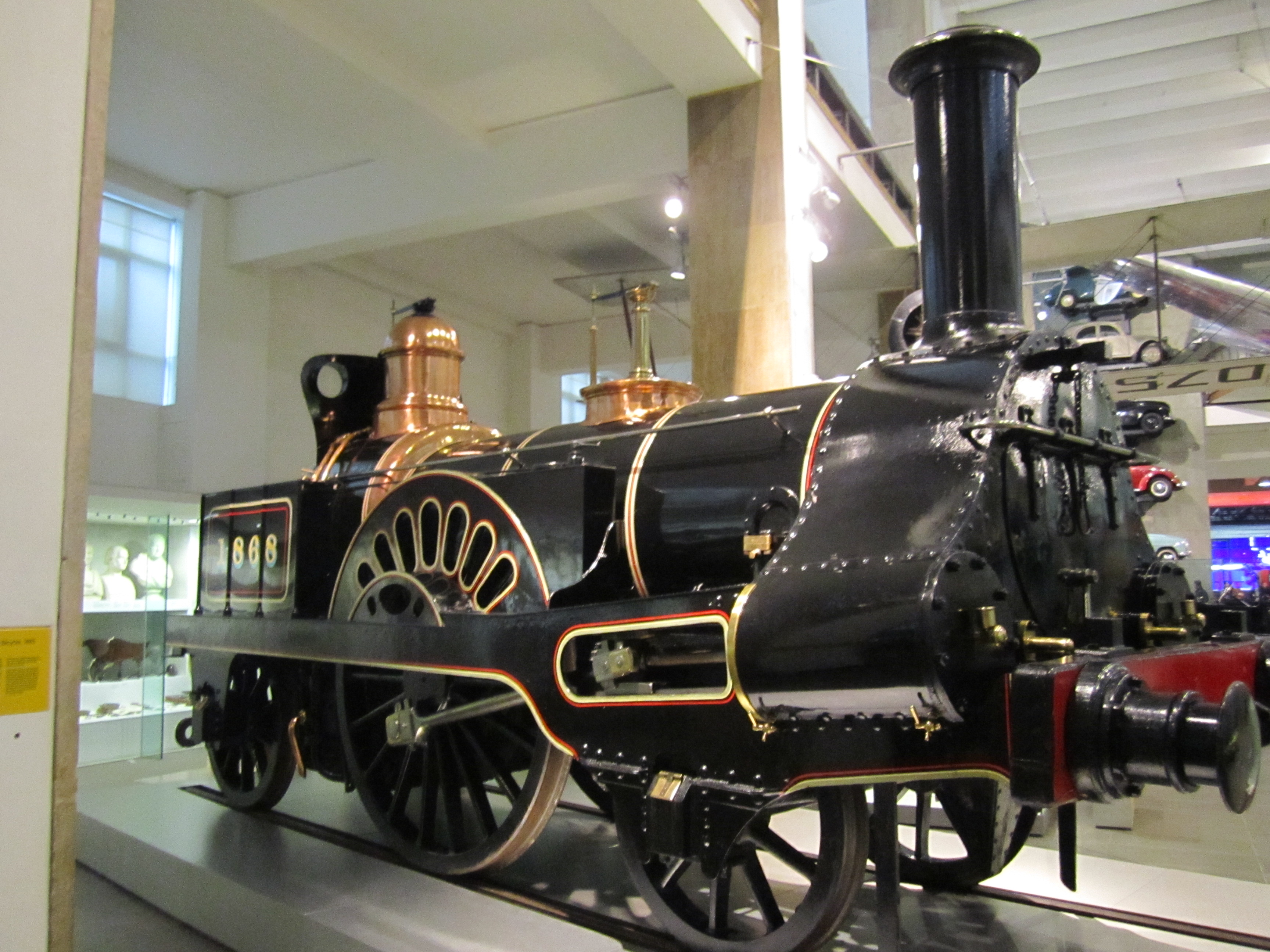 Locomotive at the Science Museum, London